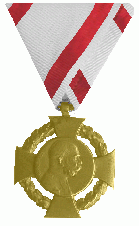 Jubiläums-Kreuz 1908